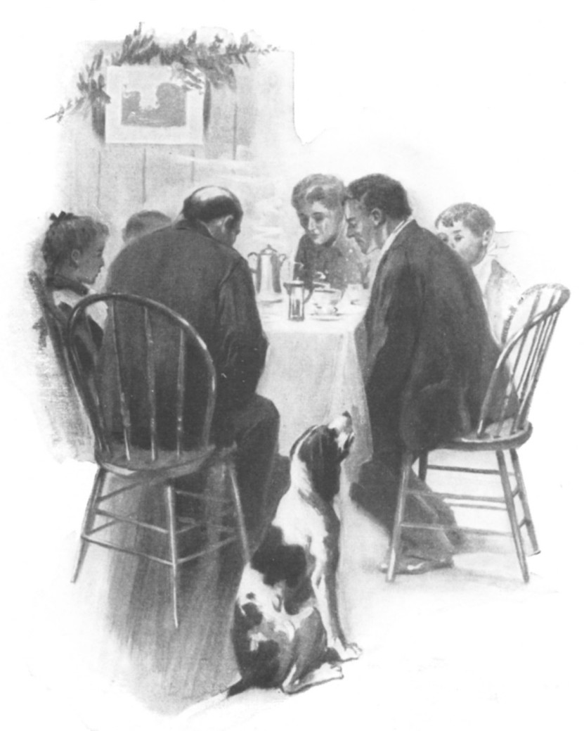 Illustration from A Defective Santa Claus by James Whitcomb Riley.